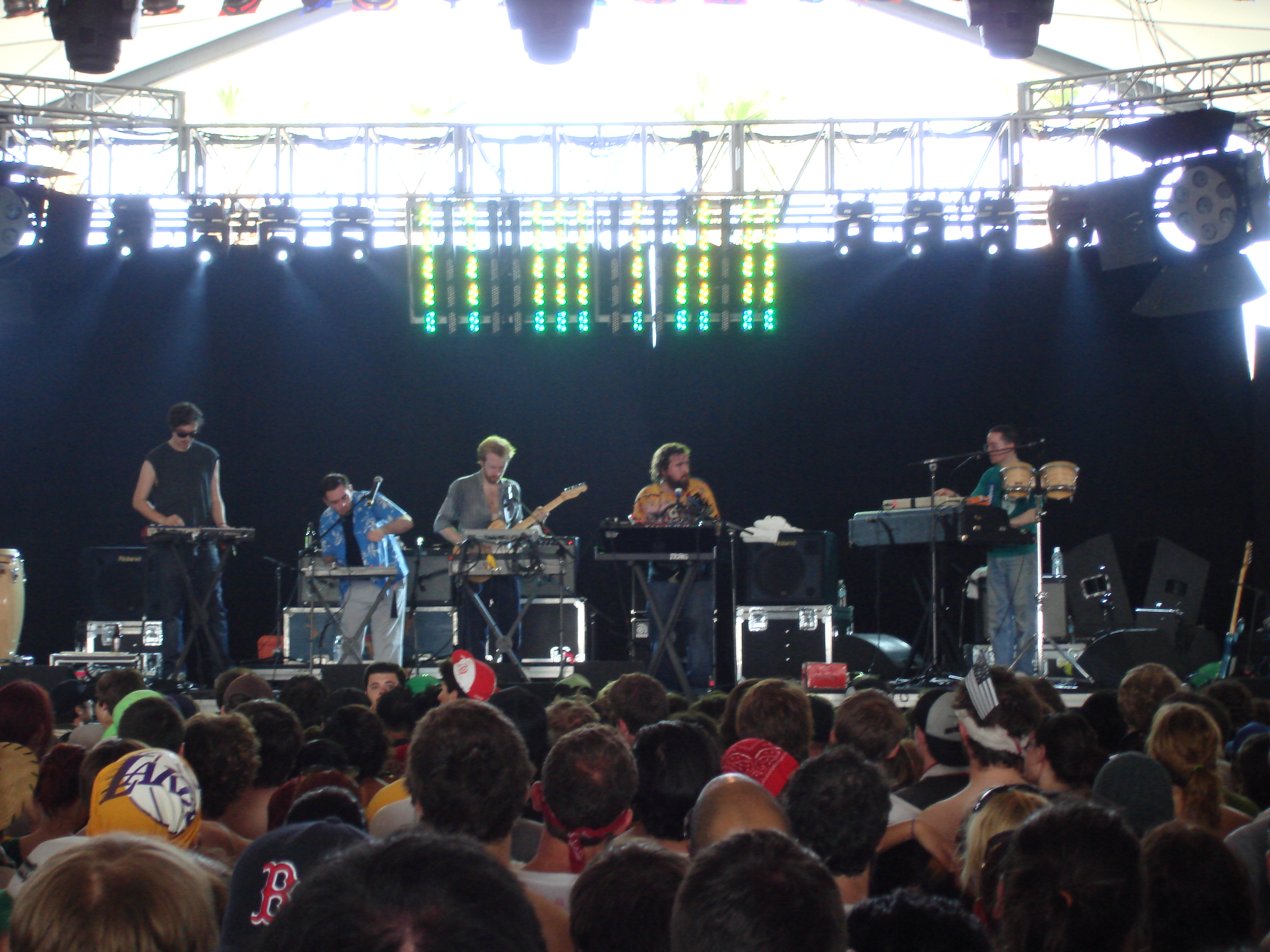 British band Hot Chip performing at the 2007 Coachella Valley Music and Arts Festival in Indio, California on April 28, 2007